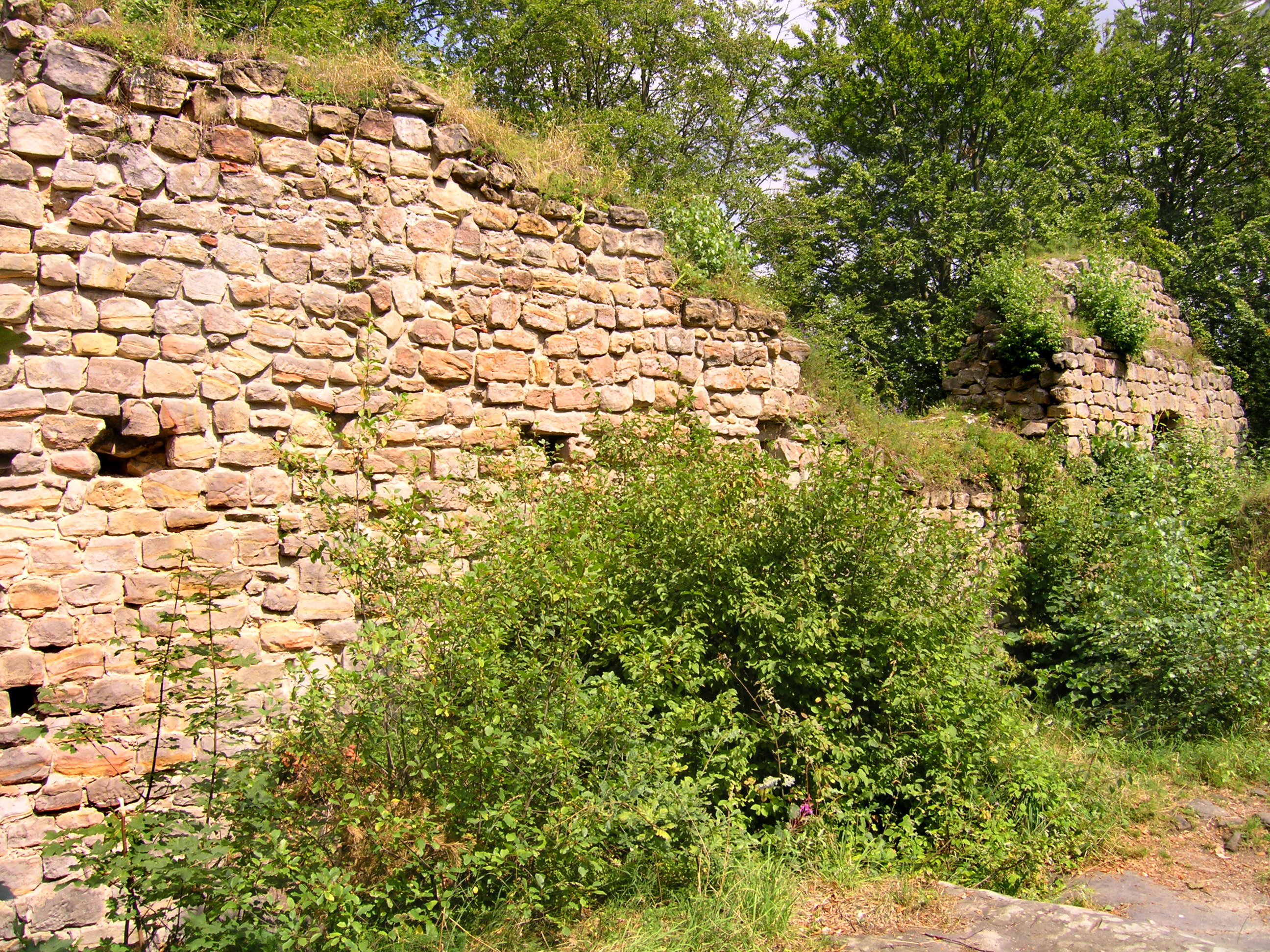 The ruins of Zbirohy castle in Koberovy village, Czech Republic